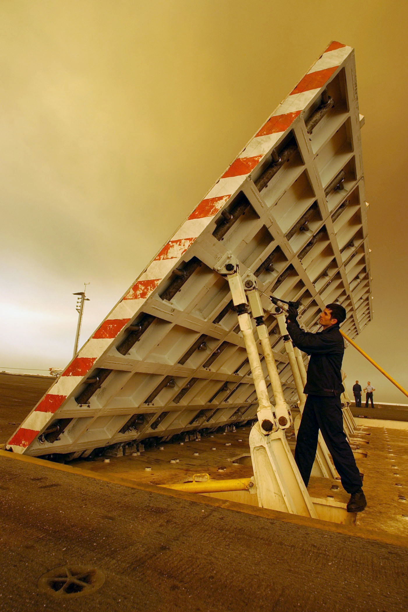 Pacific Ocean (Oct. 26, 2003) -- Airman Bryan Simmins, from Lemoore, Calif., greases the joints of a jet blast deflector (JBD) before flight operations on the flight deck of USS John C. Stennis (CVN 74). Stennis and her embarked Carrier Air Wing Fourteen (CVW-14) are at sea conducting Composite Training Unit Exercise (COMPTUEX) in preparation for an upcoming deployment. U.S. Navy photo by Photographer's Mate 3rd Class Joshua Word. (RELEASED)